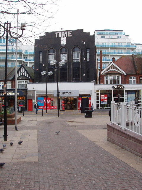 Regal Dance Centre, Harrow. In Station Road, Harrow. The dance studio is above a shop.